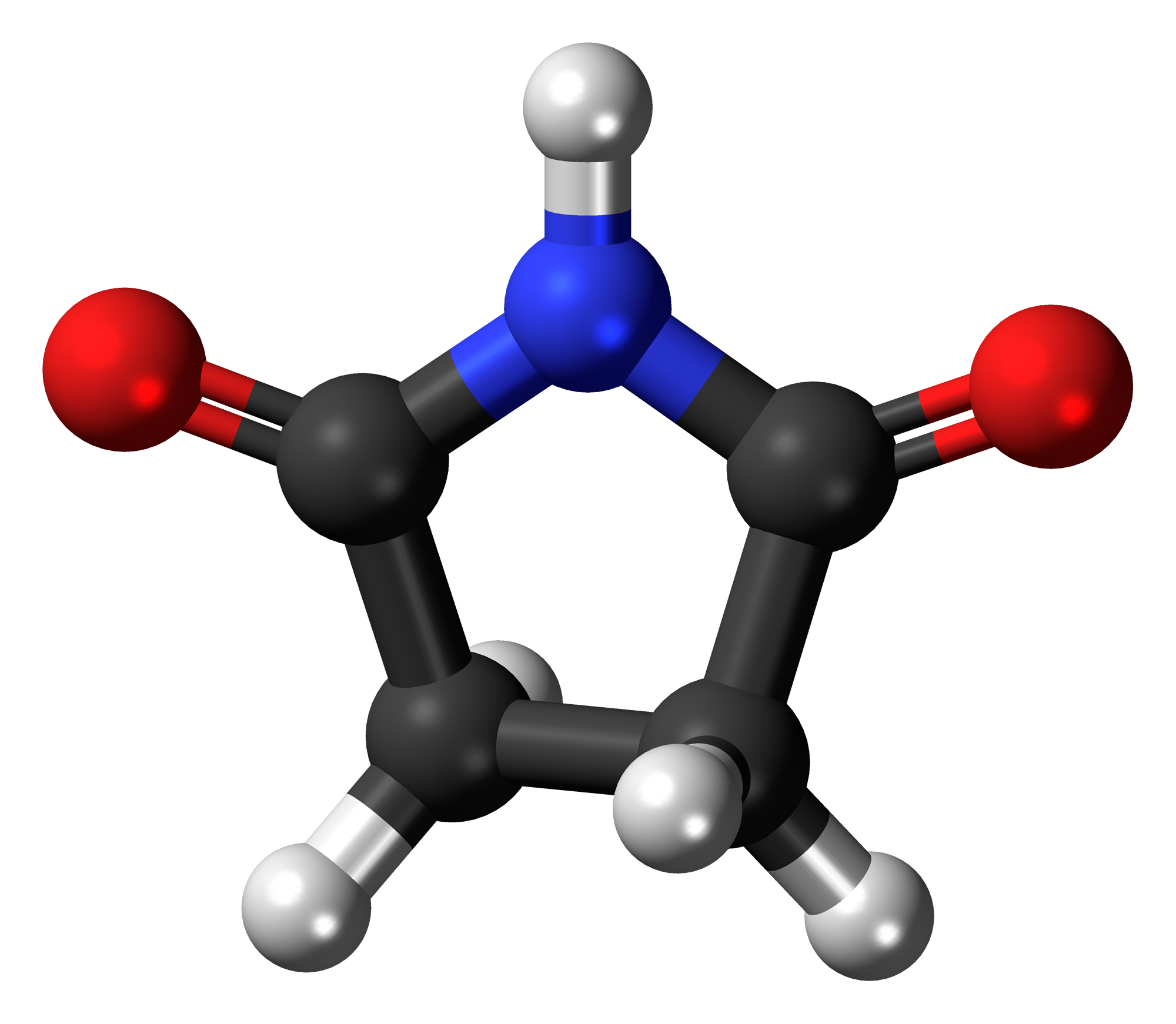 Ball-and-stick model of the succinimide molecule, a cyclic imide. Colour code: Carbon, C: black Hydrogen, H: white Oxygen, O: red Nitrogen, N: blue